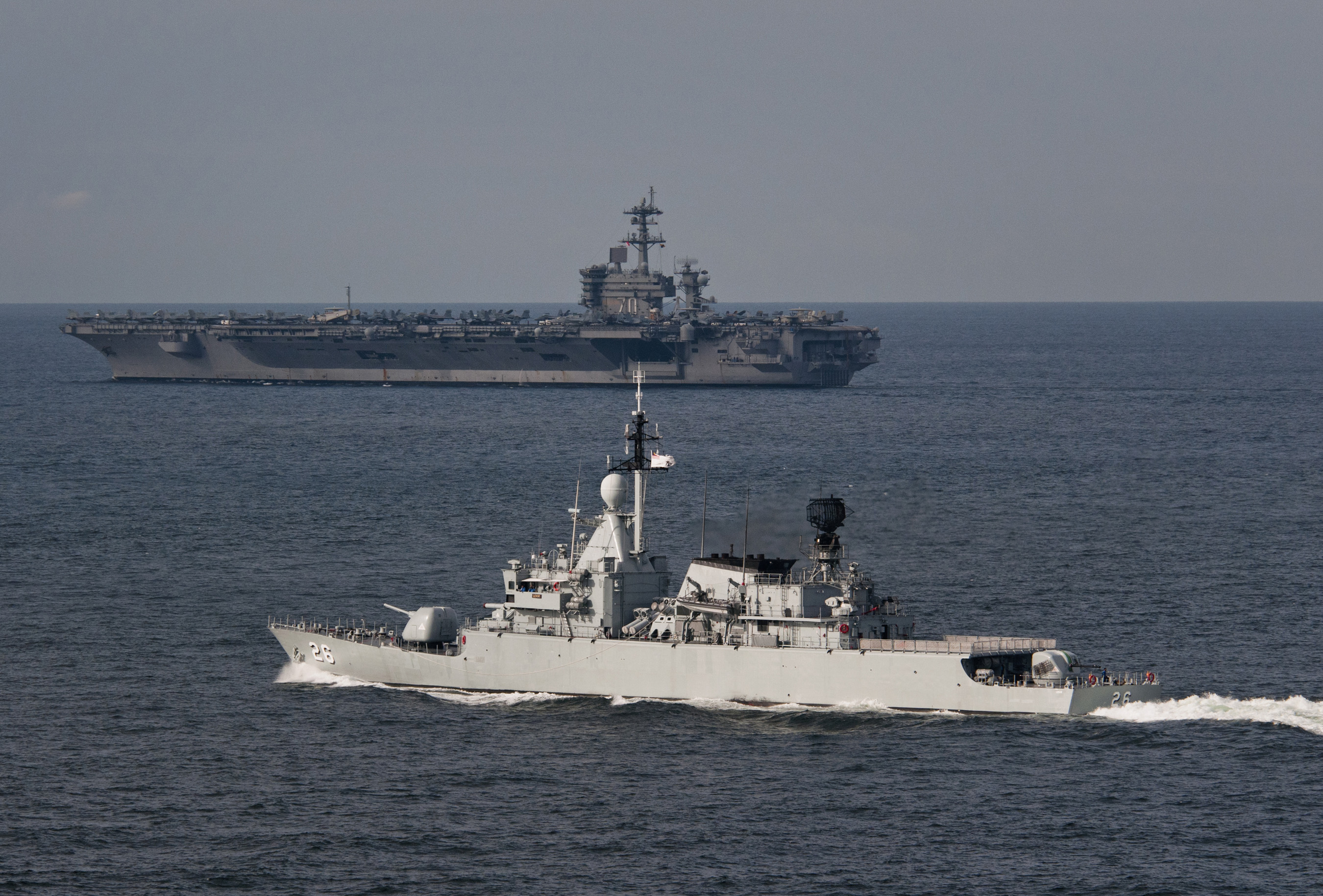 STRAIT OF MALACCA (Jan. 26, 2011) The Nimitz-class aircraft carrier USS Carl Vinson (CVN 70) leads the Royal Malaysian Navy frigate KD Lekir (FF 26) during a passing exercise. Carl Vinson and Carrier Air Wing 17 are underway on a deployment to the U.S. 7th Fleet area of responsibility. (U.S. Navy photo by Mass Communication Specialist 2nd Class James R. Evans/Released)